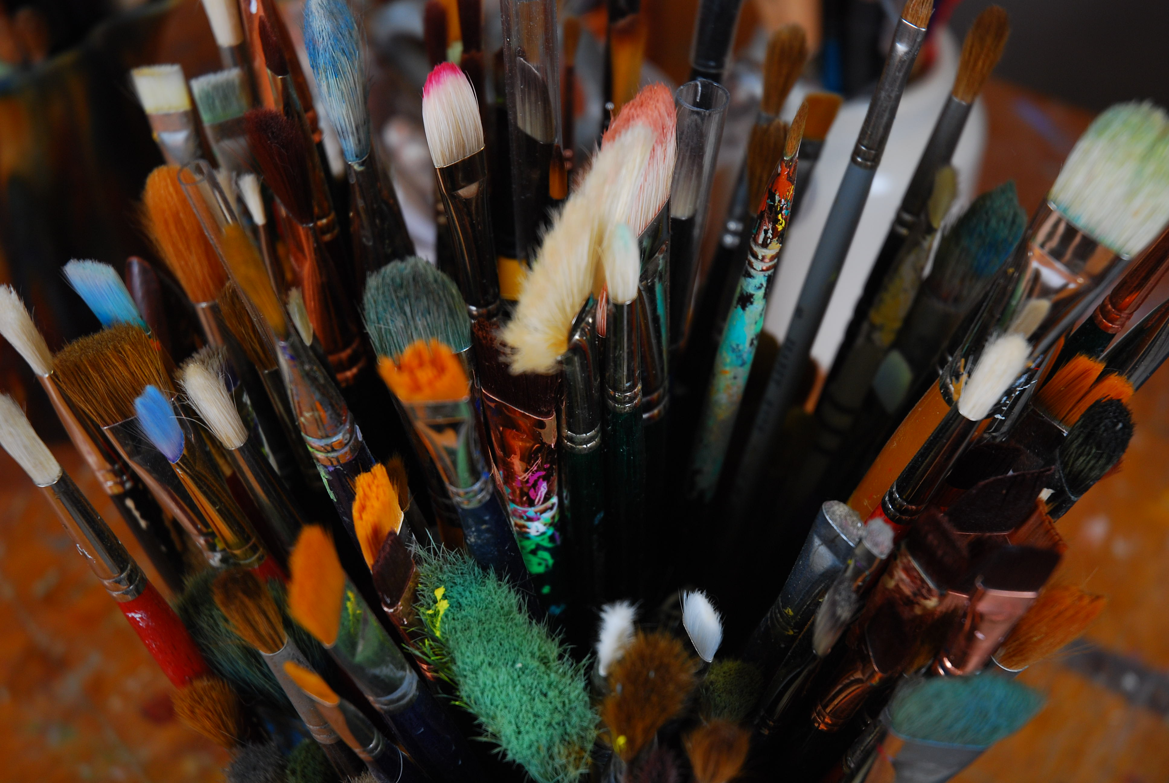 paintbrush